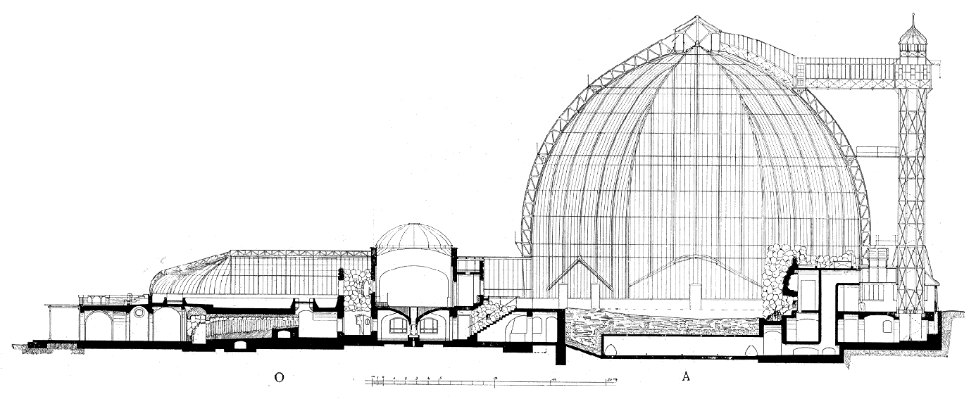 Botanical Garden in Berlin Native nameBotanischer Garten, Berlin-DahlemLocationBerlinCoordinates52° 27′ 18″ N, 13° 18′ 13″ E Established1899Website control VIAF: 122152673 LCCN: n80146344 GND: 2135864-3 WorldCat